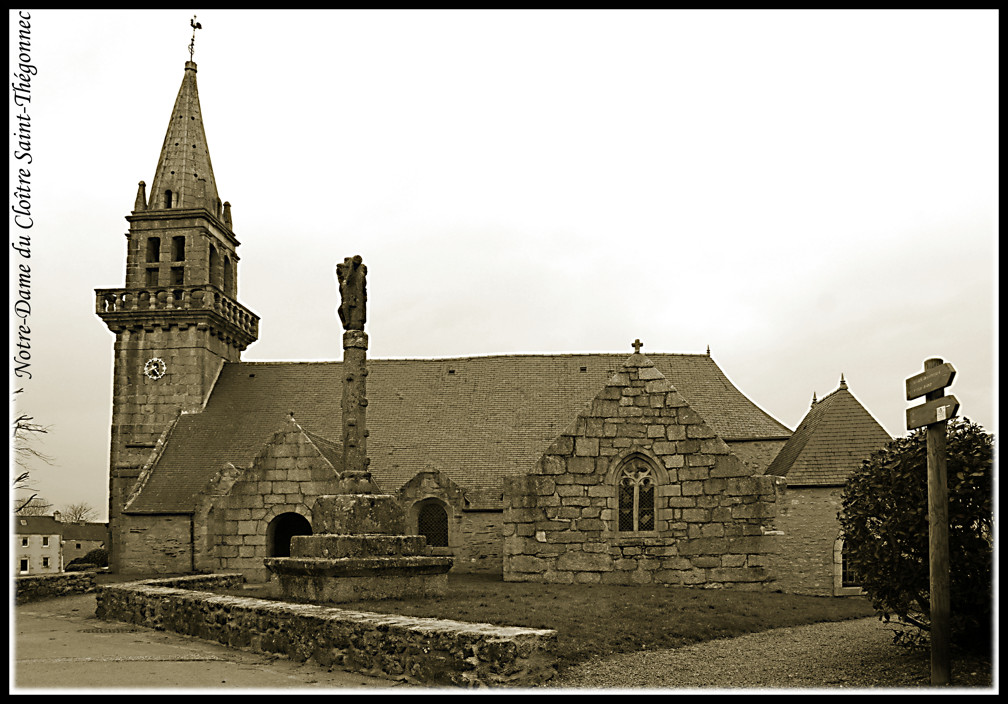 Notre Dame du Cloître Saint Thégonnec church [Feb 2010]